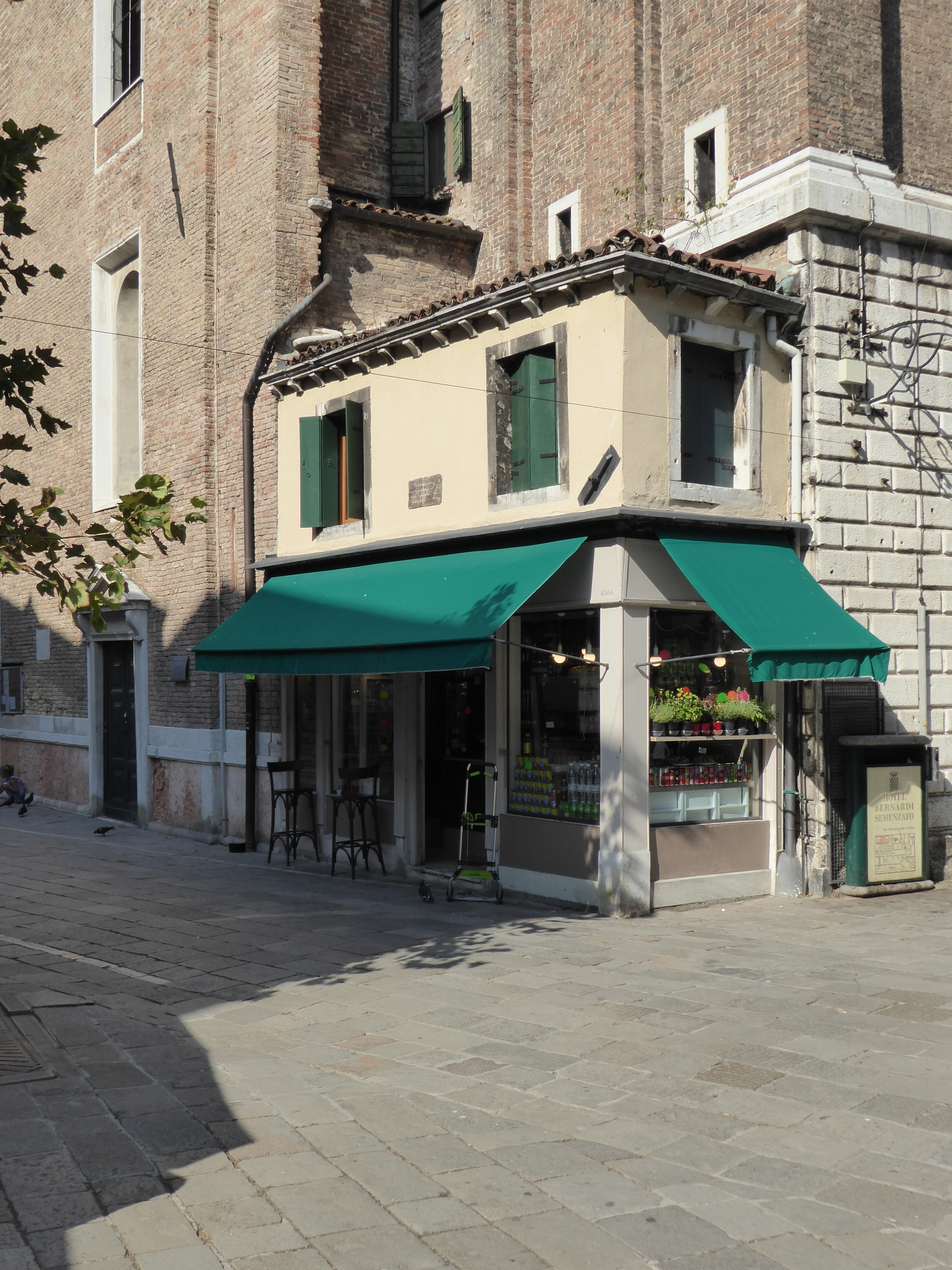 Scuola Vecchia dei dodici apostoli (Venice)